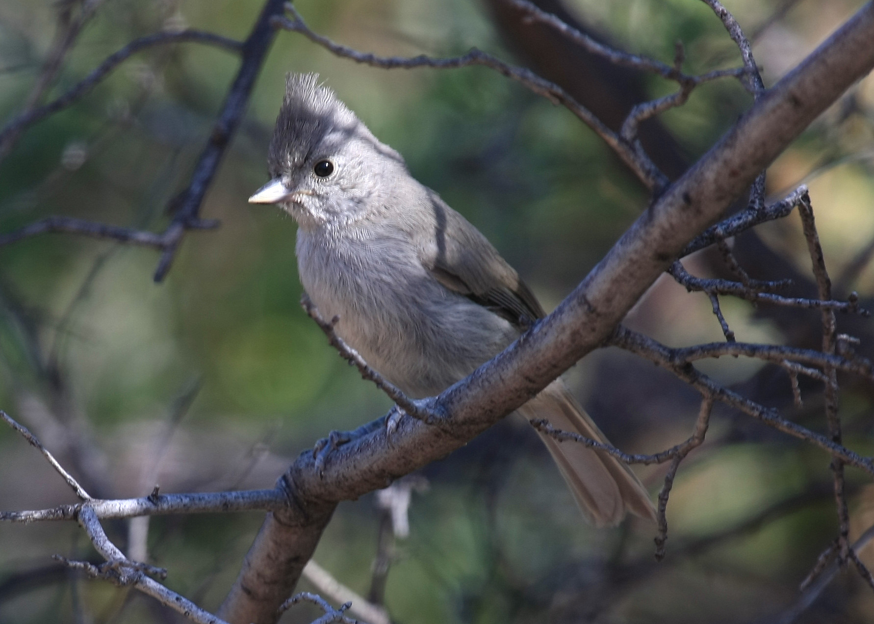 Baeolophus ridgwayi, Oak Flat, Pinal County, Arizona